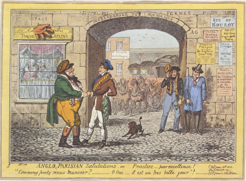 Anglo Parisian Salutations' – or Practice – par excellence! A visting Englishman shakes hands with a Parisian, attempting to converse in French.